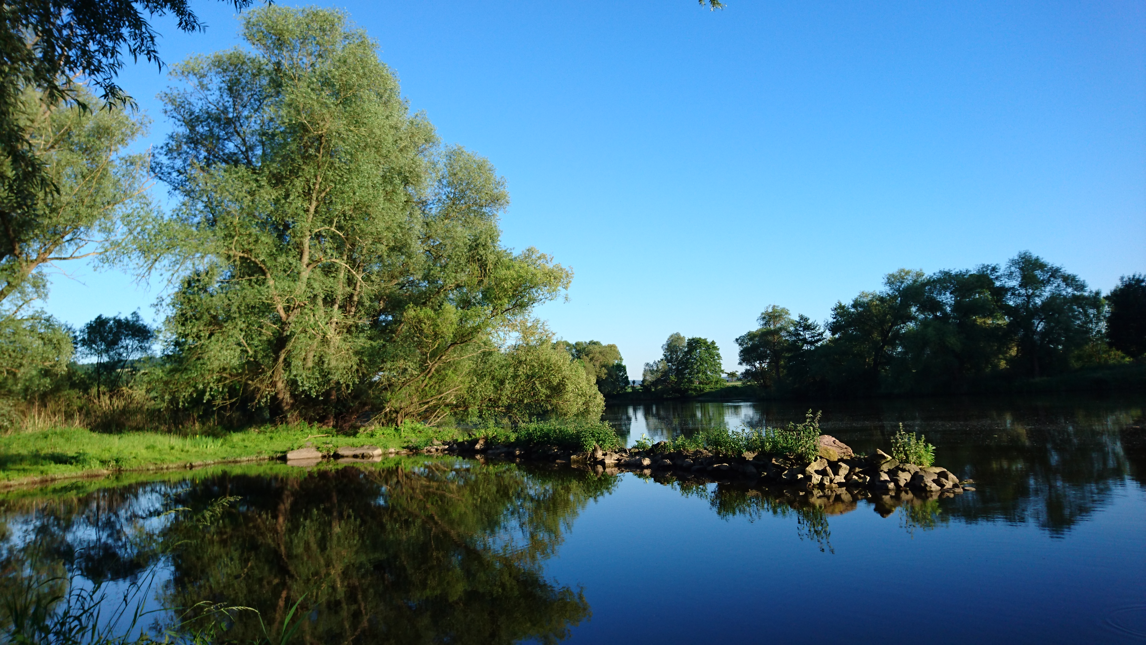 Bay of mirror